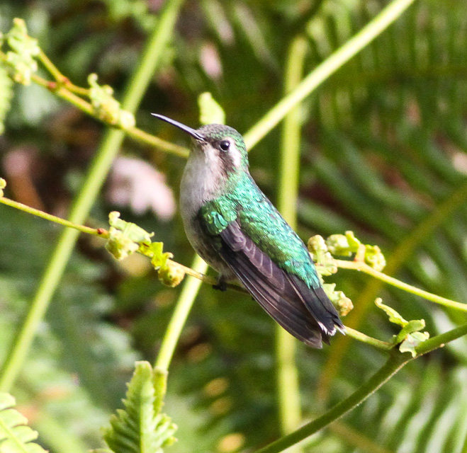 Female